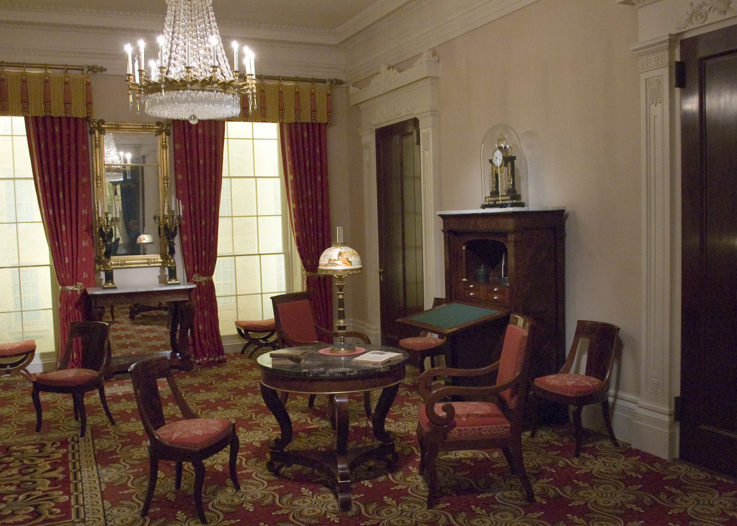 This period room recreates a Greek Revival Parlor the might have been built c. 1835 in New York City. It is in the Metropolitan Museum of Art. - Interior with round tripod table, armchairs, gondola chairs, fall-front desk, pier table with girandoles, curtains.